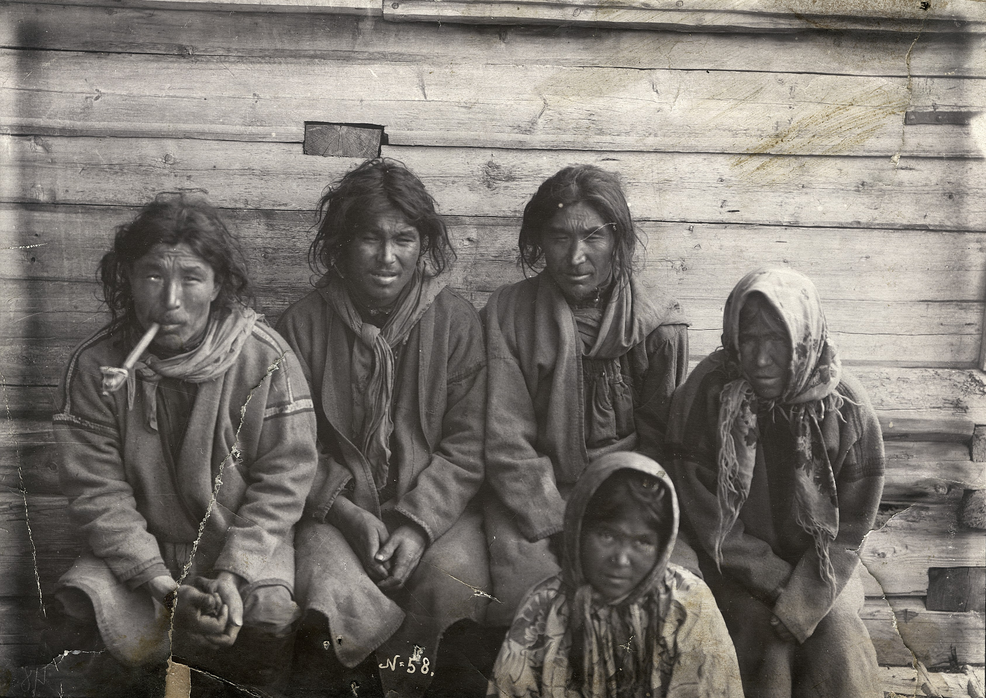 A family of Siberian Ket people (three brothers, mother, and sister) ca. 1900